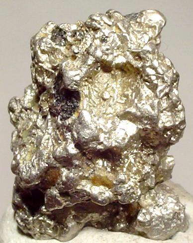 Platinum Locality: Urals Region, Russia (Locality at ) A sharp, lustrous, silver-colored platinum crystal with many cubic faces from an uncommon Russian locality in the Ural Mountains. Gold nuggets go for at least 1.25 spot and platinum nuggets should go for double or more of the price of a gold nugget as they are so much more rare. 1.2 x 1.0 x 0.8 cm